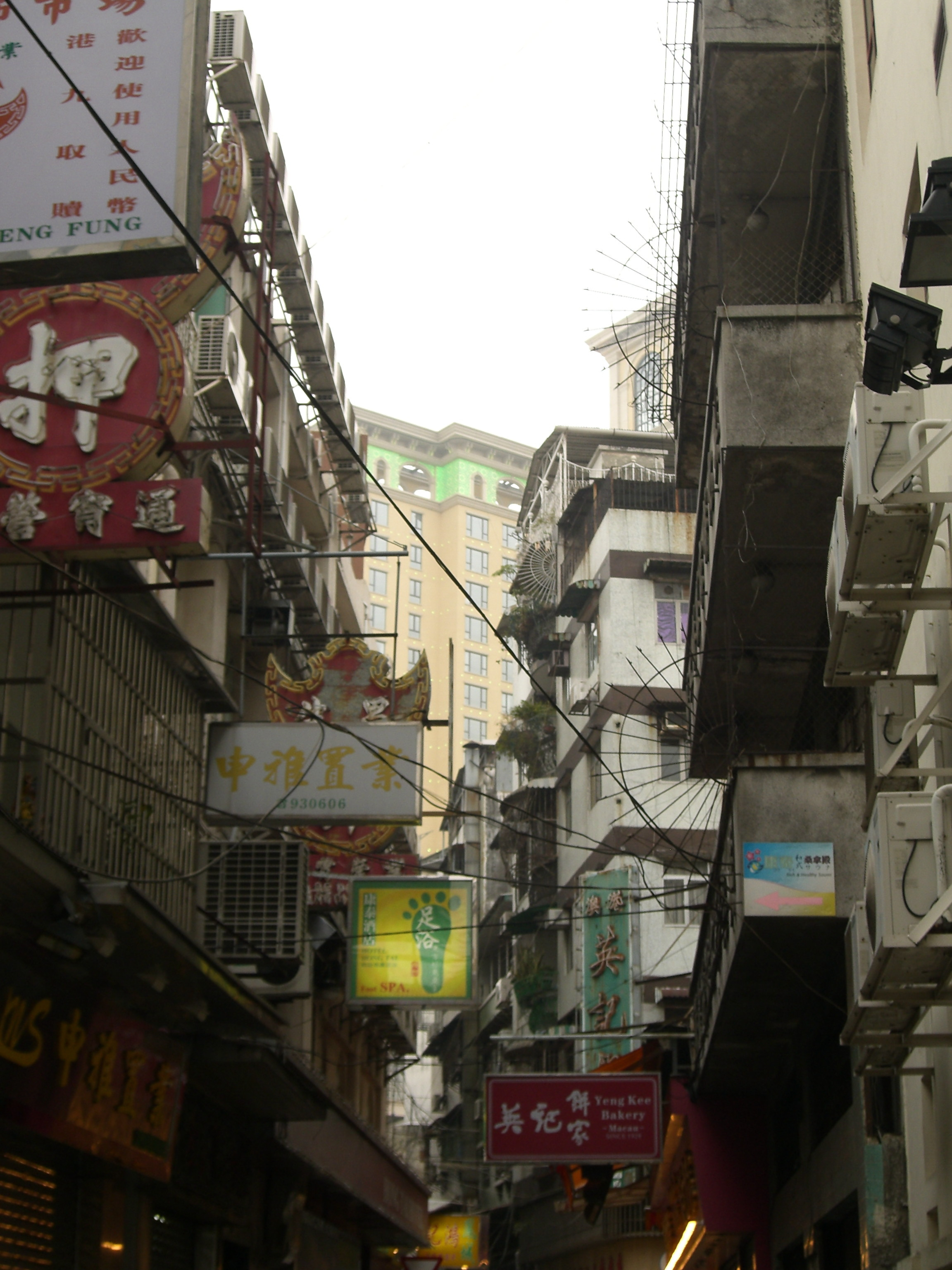 The TV Cables through a street in Macau